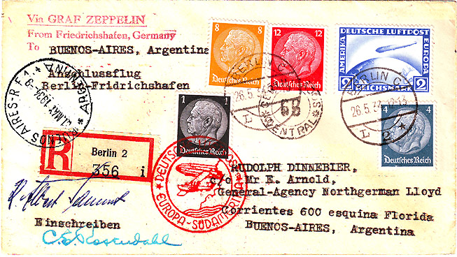 Registered mail (Einschreiben) cover carried on D-LZ127 "Graf Zeppelin" on the first 1934 South America Flight to Rio de Janeiro, Brazil (and by airplane to Buenos Aires, Argentina), May 26-31, 1934, autographed by the "Graf Zeppelin" commander Capt. Albert Sammt and LCDR Charles E. Rosendahl, USN, Commander, NAS Lakehurst, NJ.